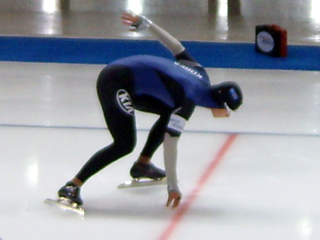 Lee Ki-ho (KOR) befor 1000 meters world cup speedskating race in Berlin, Germany.